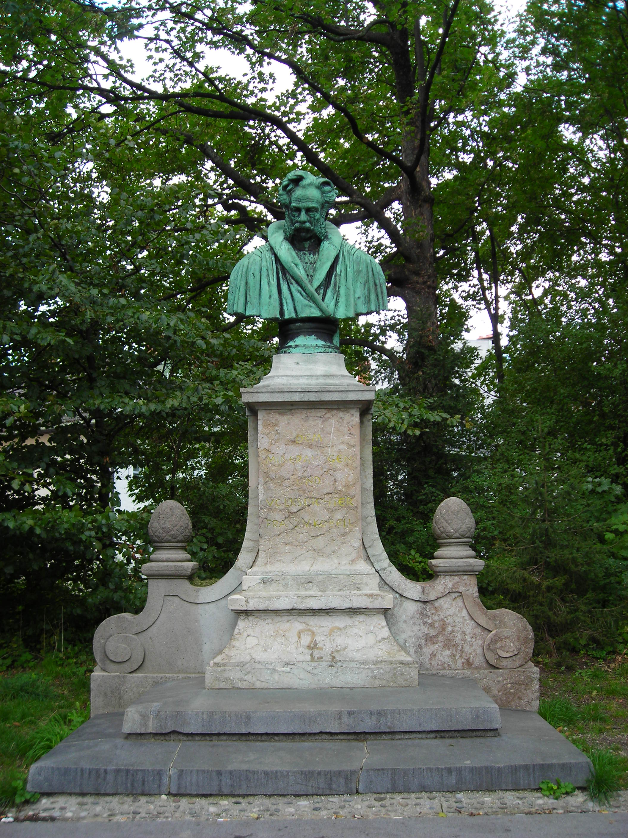 Franz von Kobell statue in Munich, Germany